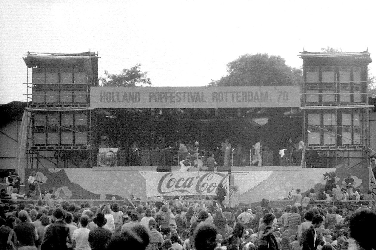 Canned Heat during Holland Pop Festival, Kralingen (Rotterdam) 1970. (PICT0023)